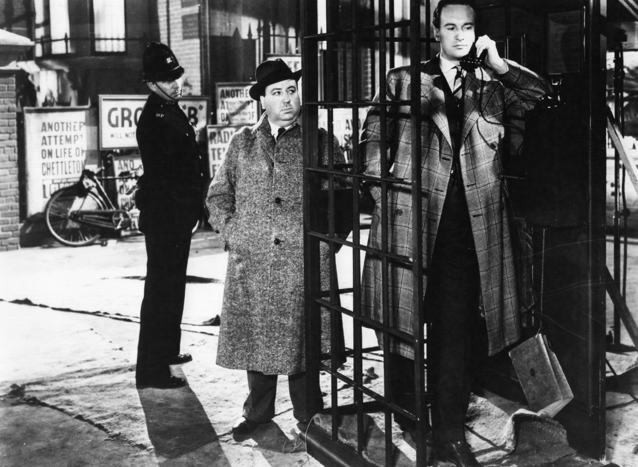 George Sanders & Alfred Hitchcock in 1940 Rebecca (1940) film still.See also film still. No copyright notice.